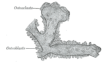 Osteoblasts and osteoclasts on trabecula of lower jaw of calf embryo. (KÃ¶lliker.)